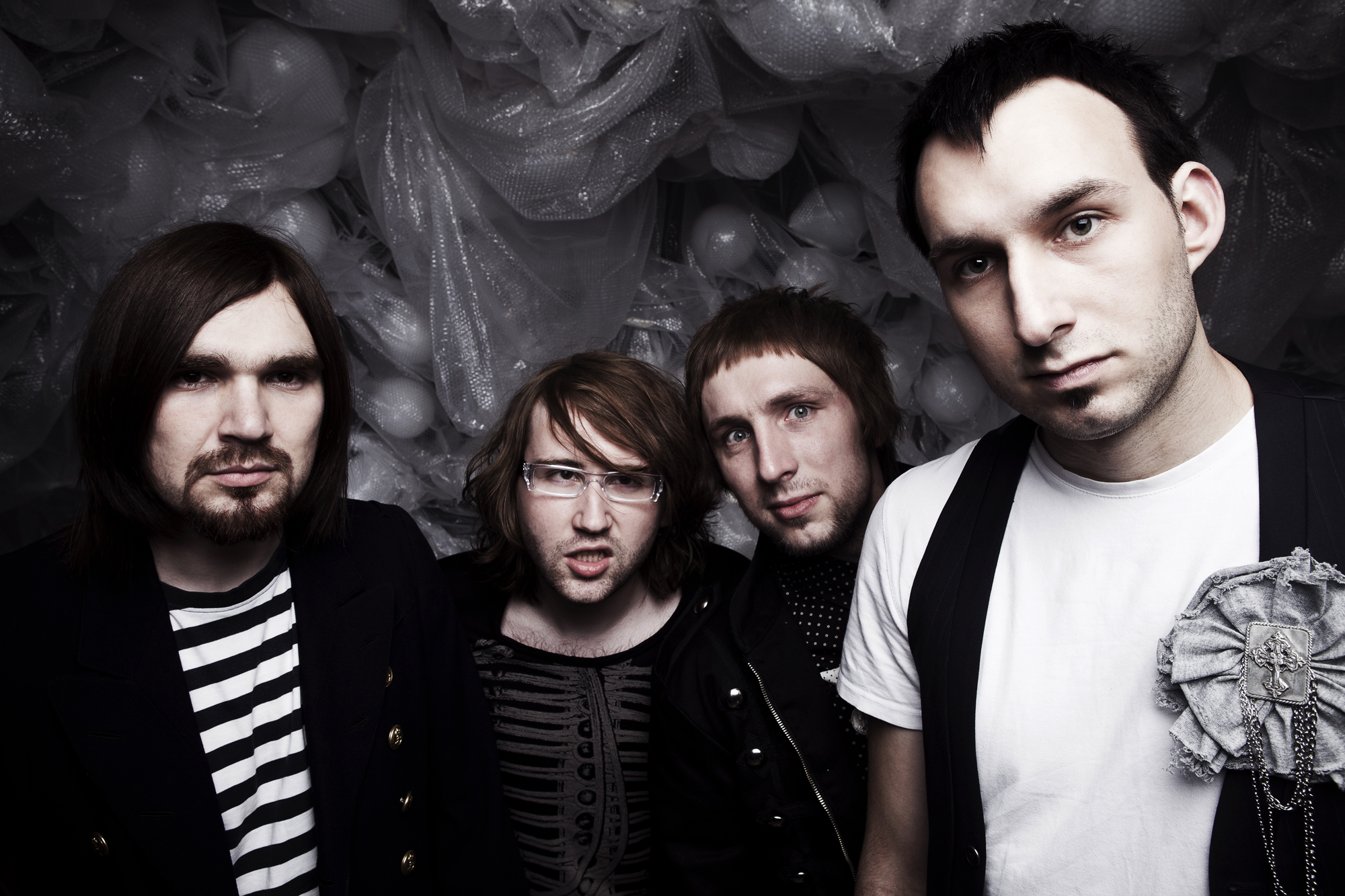 Official promo photography of the band Apatheia.